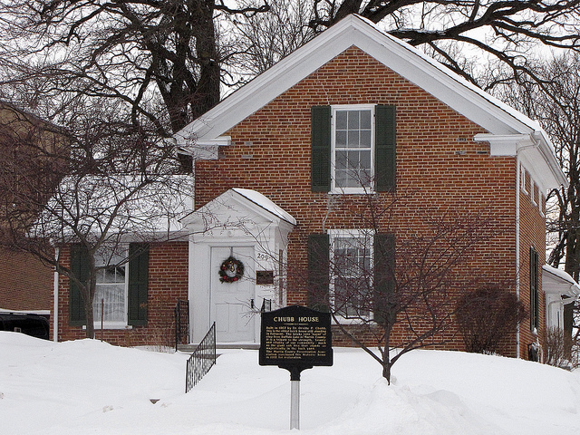 Orville P. and Sarah Chubb House in Fairmont Minnesota, on the National Register of Historic Places.